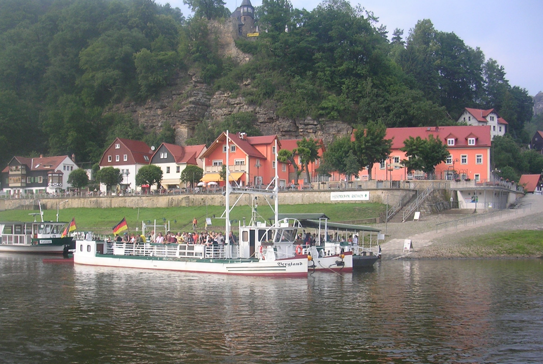 The Rathen Ferry across the River Elbe in Saxony, Germany. The ferry is alongside the Niederrathen landing stage. For more information, see the Wikipedia article Rathen Ferry.